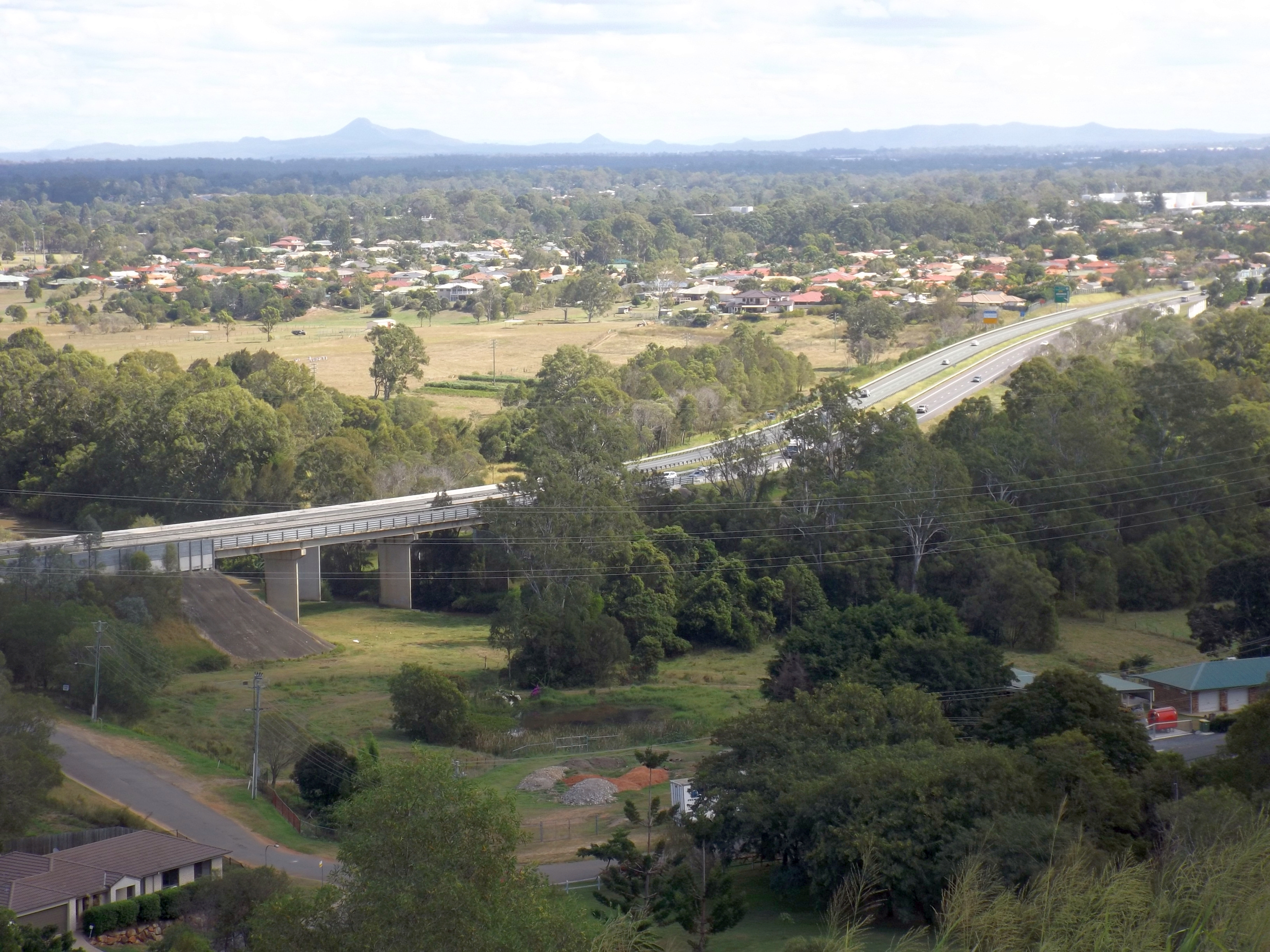 Photo of the Logan Motorway at Tanah Merah, City of Logan Queensland, Australia. Meadowbrook can be seen in the background. Bridge is over Slacks Creek. Original Murrary farm in foreground. Flinders Peak and Teviot Range in the distant background.